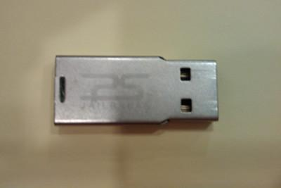 a shot of the Playstation Jailbreak modchip